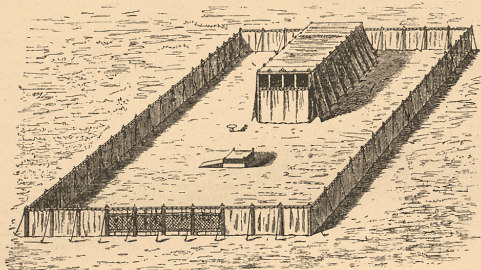 Illustration from Brockhaus and Efron Jewish Encyclopedia (1906—1913)